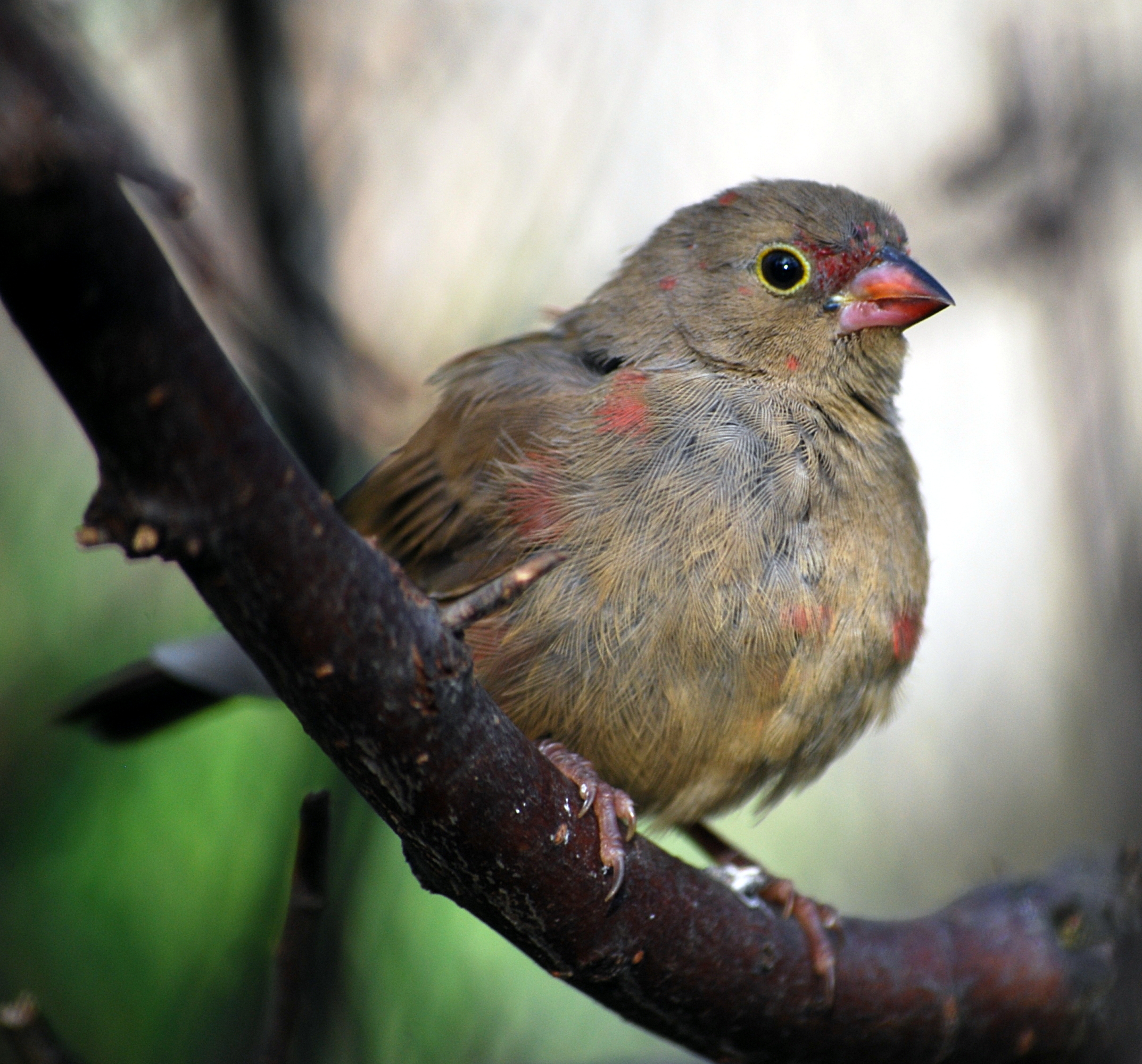 Female Red-billed Firefinch (Lagonosticta senegala) at Adelaide Zoo, South Australia